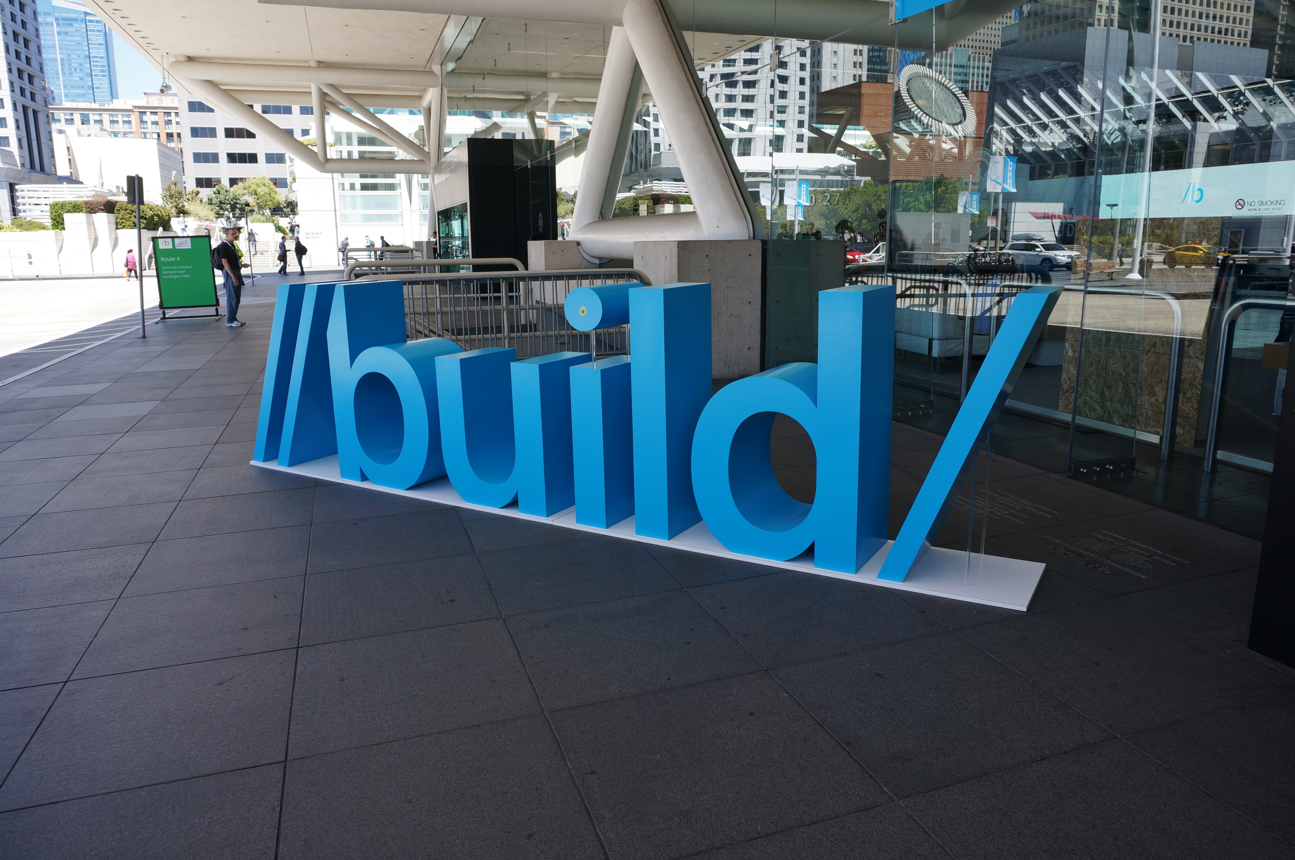 Sign for Microsoft's Build 2013 conference in San Fransisco at building entrance